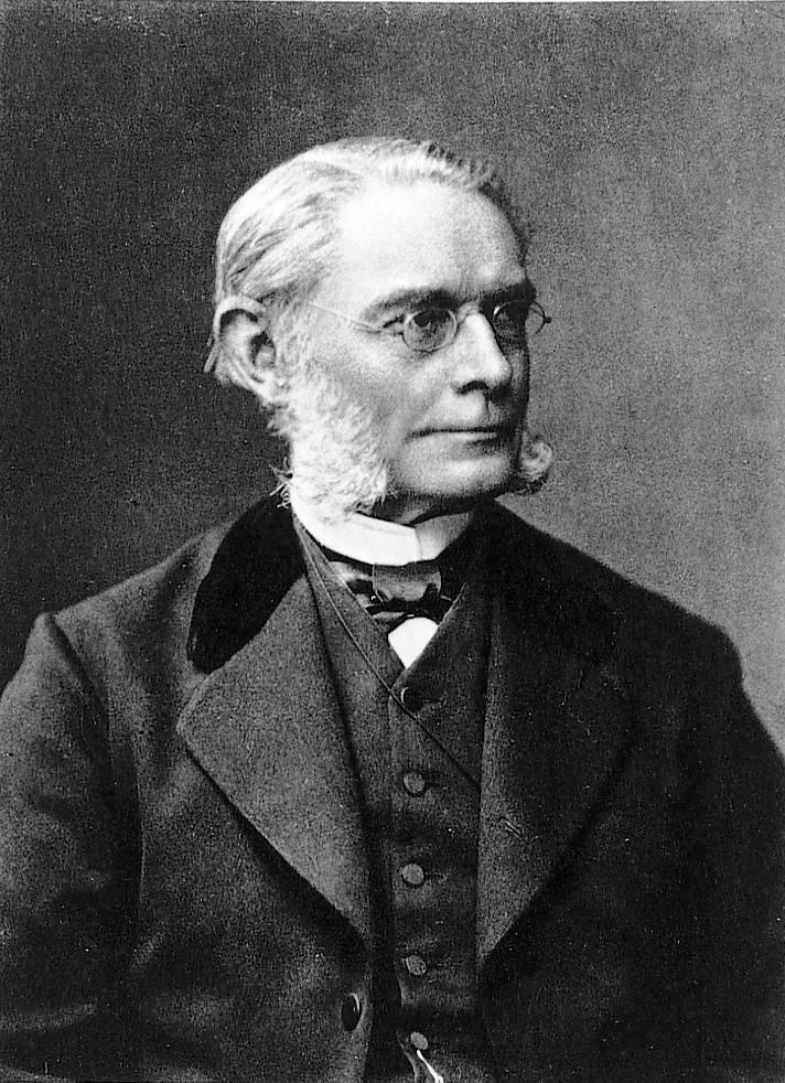 Danish Foreign Minister, diplomat George Joachim Quaade (1813-1889)